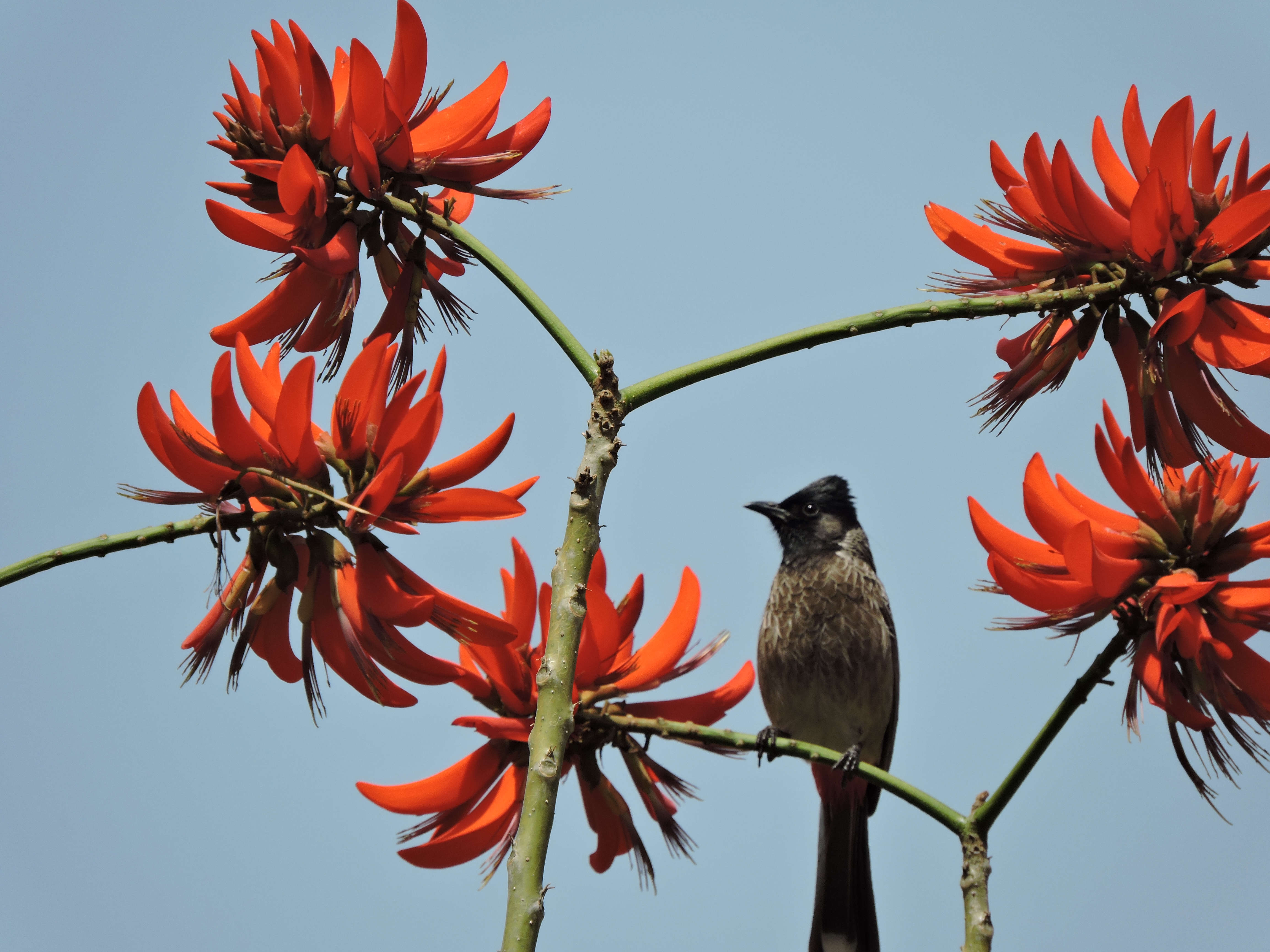 Red-vented bulbul, near Sukhna Lake ,Chandigarh, India